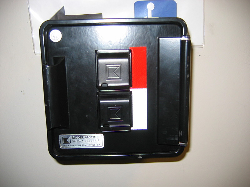 Knox Box, Fine Hall, Princeton University. © 2004 Joseph Barillari